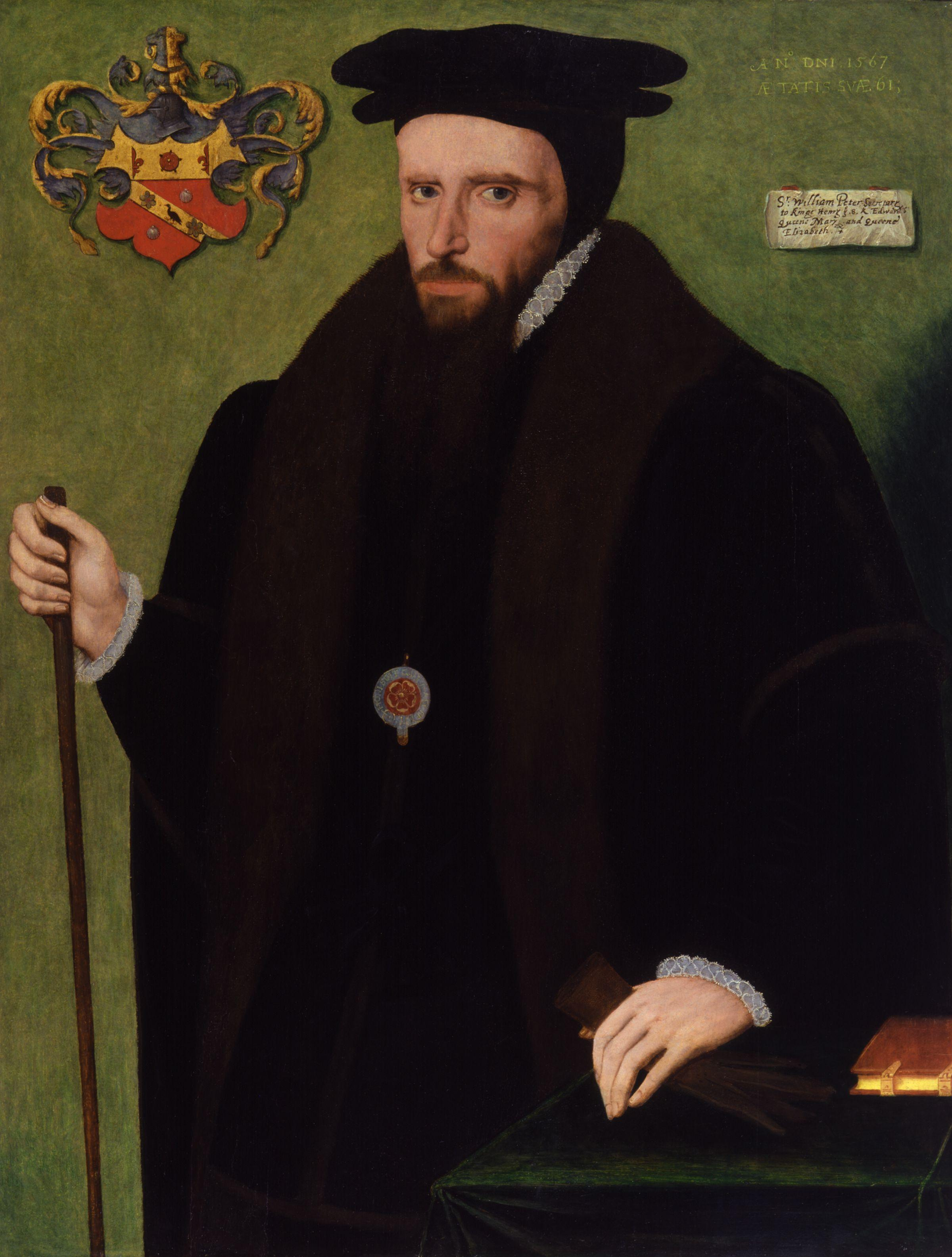 Sir William Petre, by unknown artist. Sir William Petre (circa 1505 – 1572) was born in Devon in 1505 and educated as a lawyer at Exeter College, Oxford. He became a public servant, probably through the influence of the Boleyns. All images in this batch are listed as "unknown author" by the NPG, who is diligent in researching authors, and was donated to the NPG before 1939 according to their website.